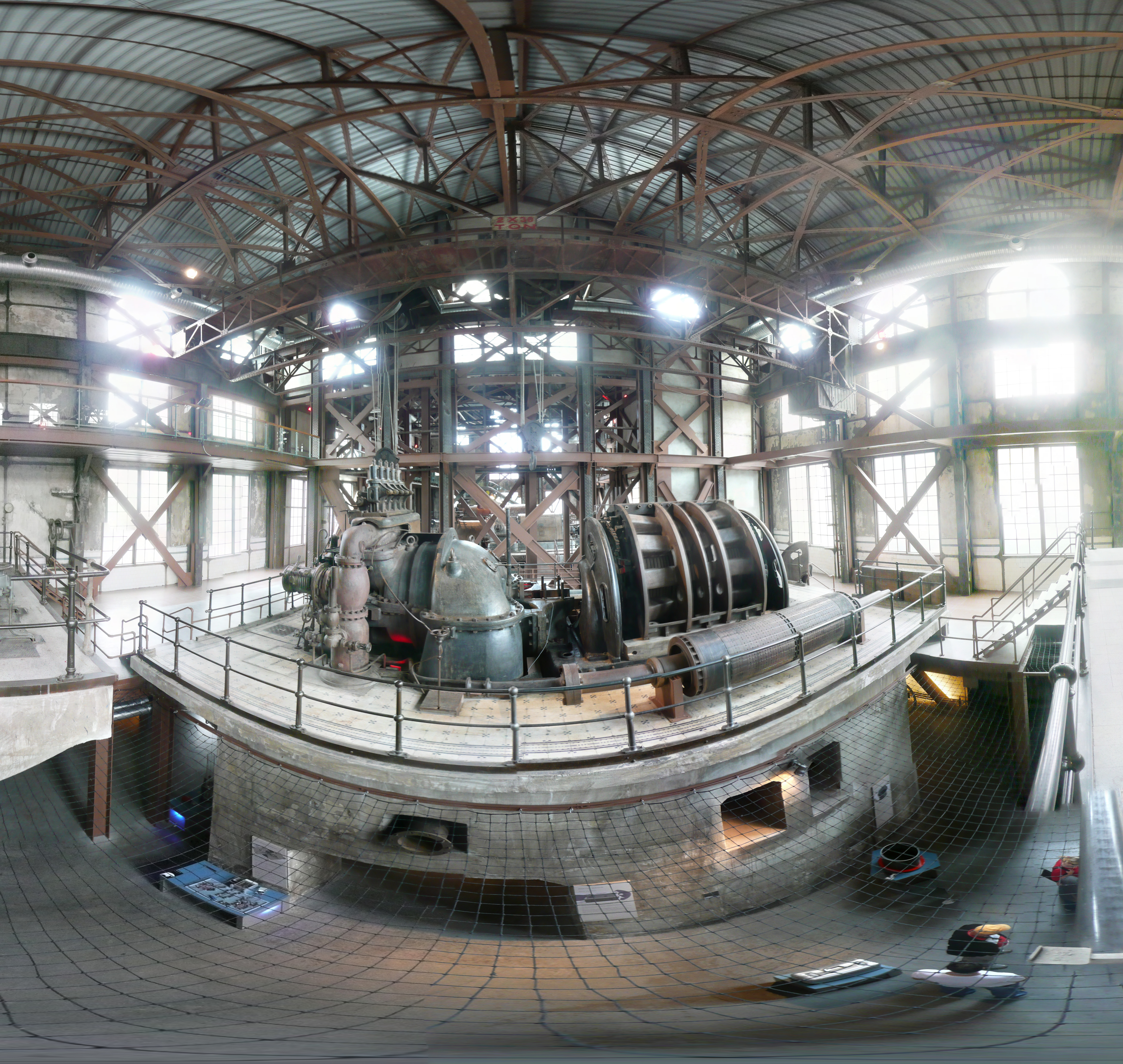 Santral Istanbul, old power plant - Google Maps - Google Earth